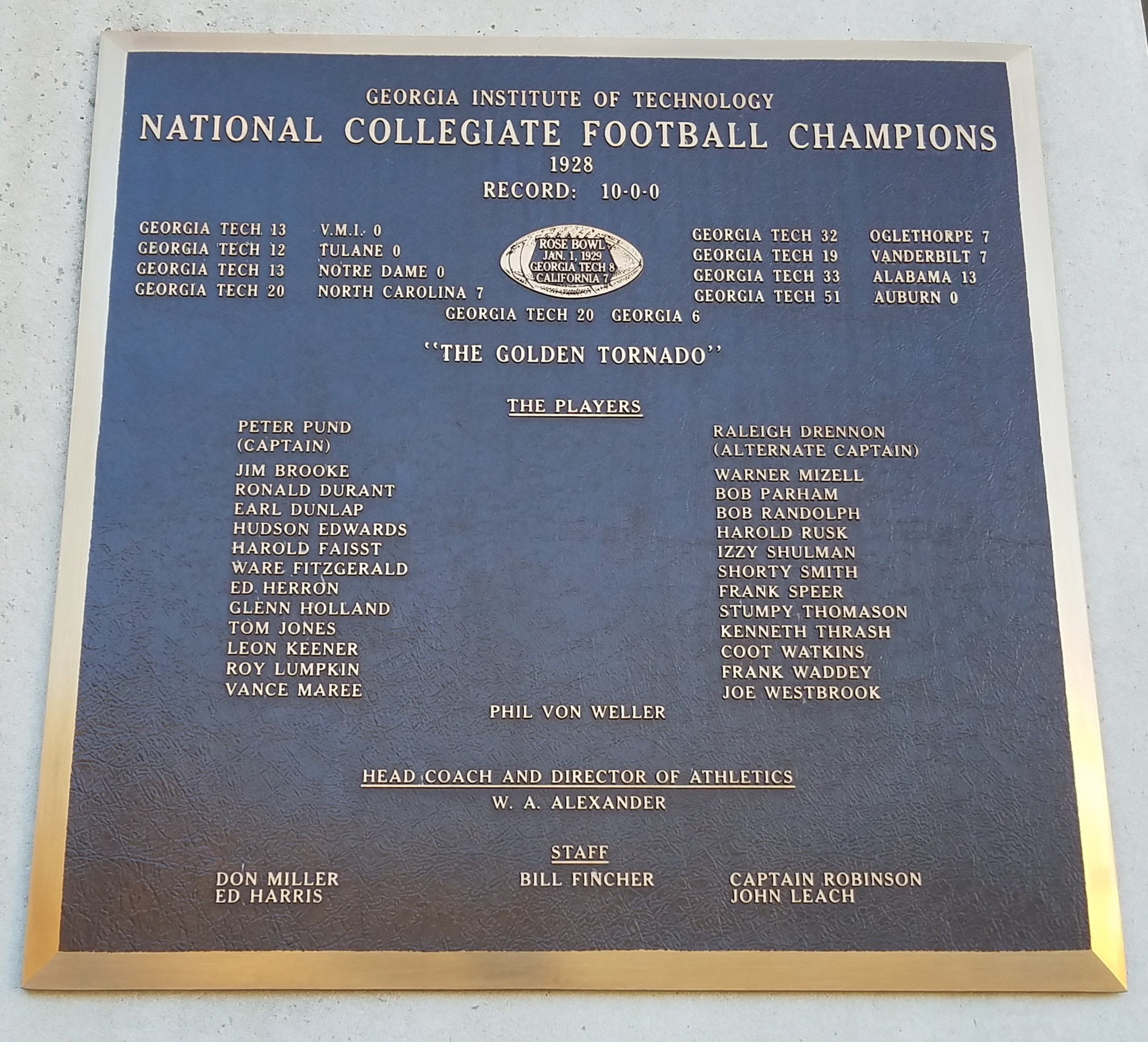 Plaque commemorating the 1928 Georgia Tech Yellow Jackets football national championship team.